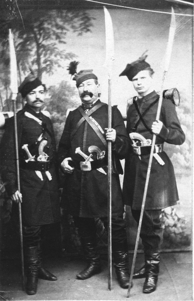 Polish soldiers of the January Uprising